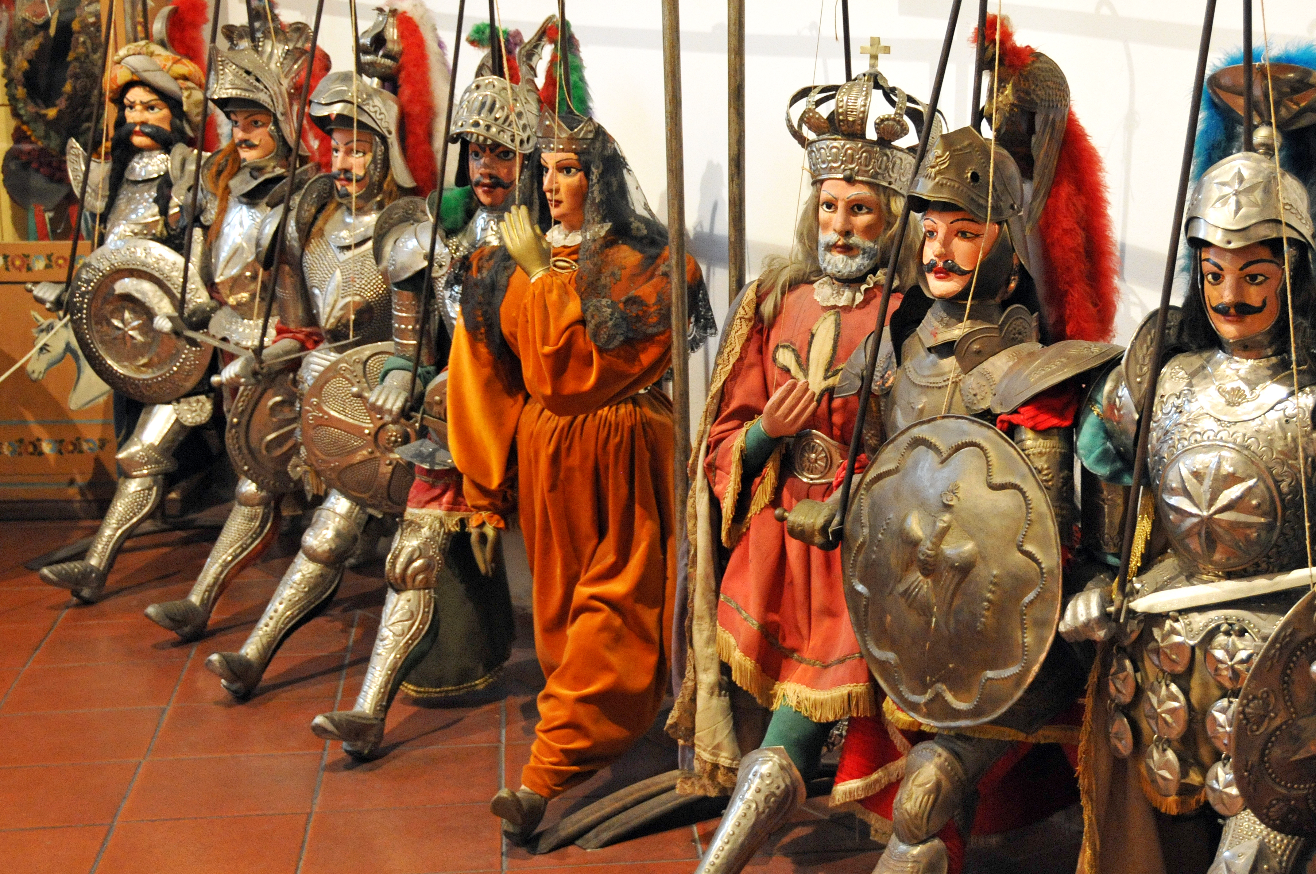 PLEASE, no multi invitations, glitters or self promotion in your comments. My photos are FREE for anyone to use, just give me credit and it would be nice if you let me know. Thanks The Taormina Information Office has puppets that stand several feet tall and are used to tell traditional stories. There is a rich tradition of puppetry in Sicily and puppet theatres are found all over the island. The information office is in Palazzo Corvaja, in the 11th century the Arabs reinforced the city's defences by building this tower. The tower was extended at the end of the 13th century with the addition of the area on the left of the entrance portal. Together with this new wing, a staircase was built leading from the courtyard to the first floor.